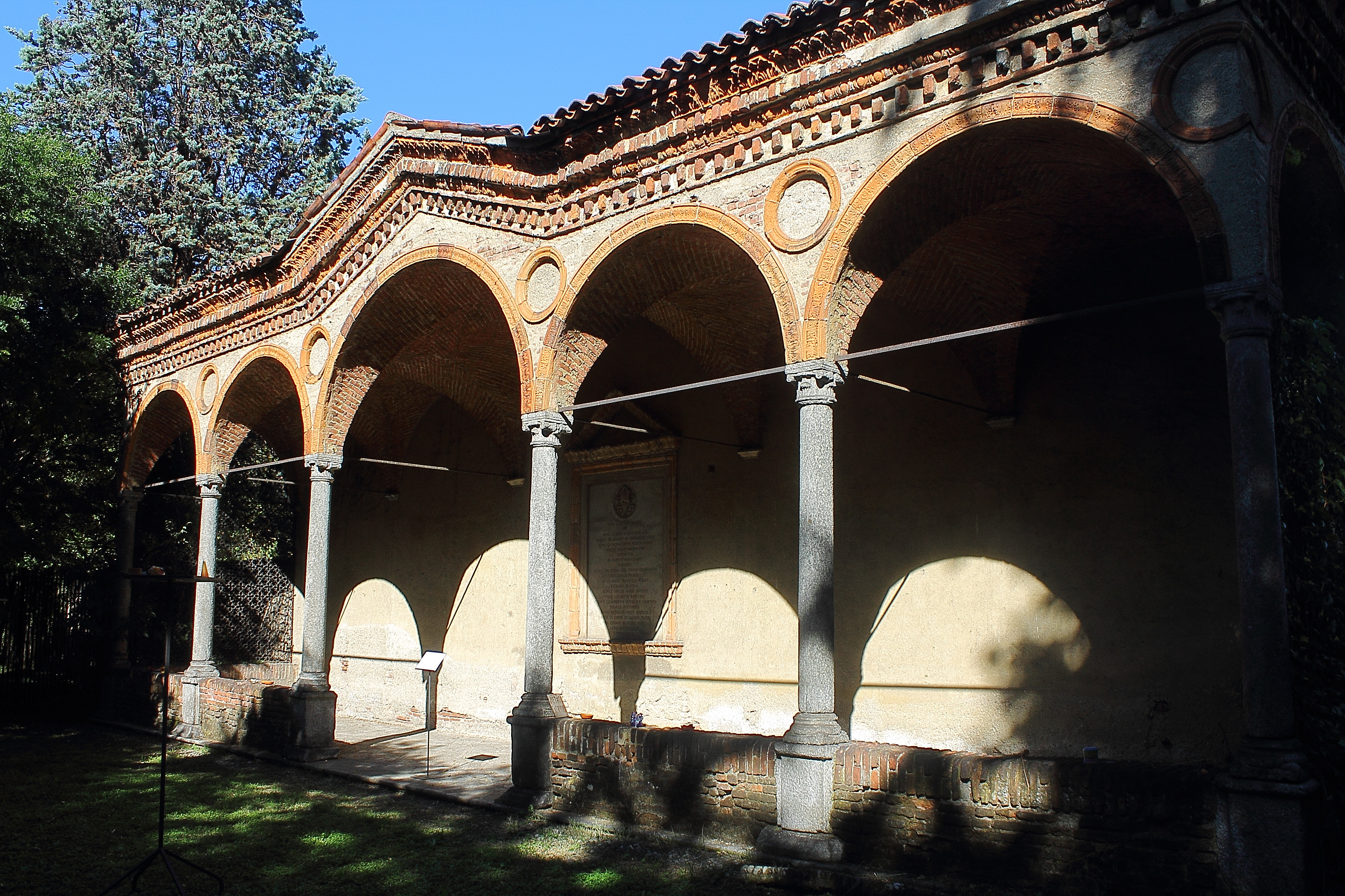 Varedo - Resti del Lazzaretto di Milano (Porta di San Gregorio, detta anche Porta Minore) - Villa Bagatti Valsecchi di Varedo